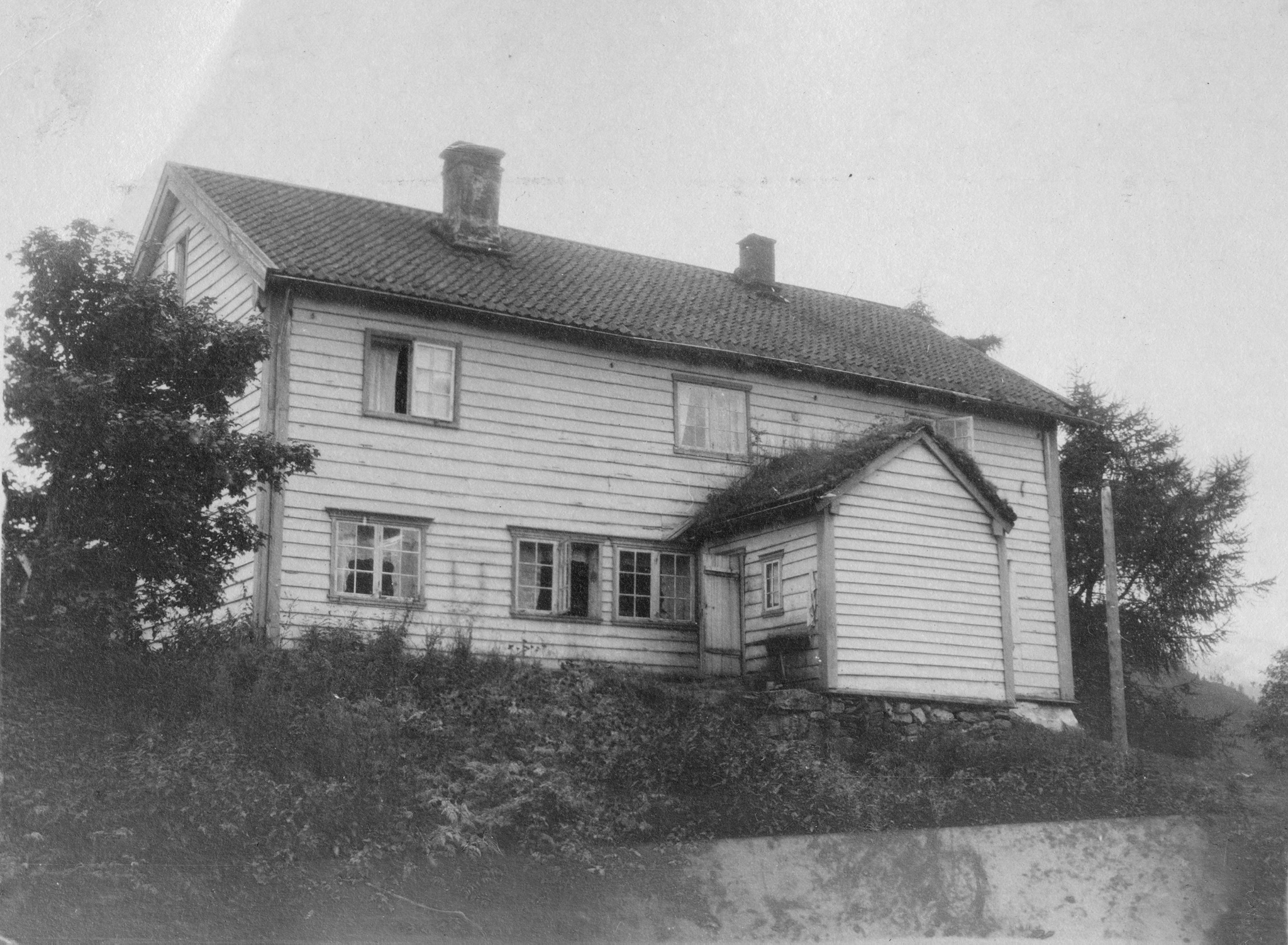 Ørskog prestegård sett fra nord. Fra Riksantikvarens Kulturminnebilder.